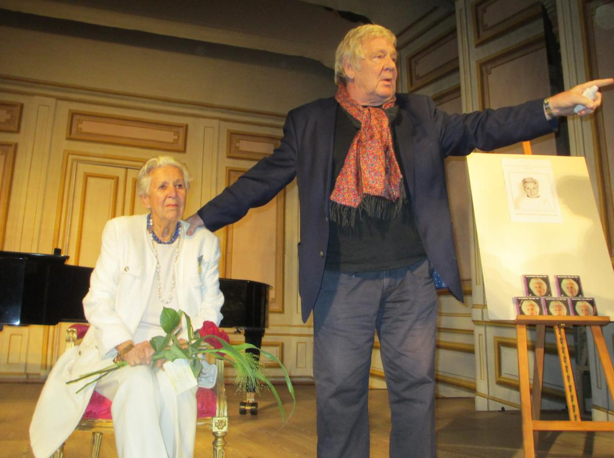 Kjerstin Dellert & Börje AhlstedtPlace: Confidencen, Ulriksdal, Solna, Sweden